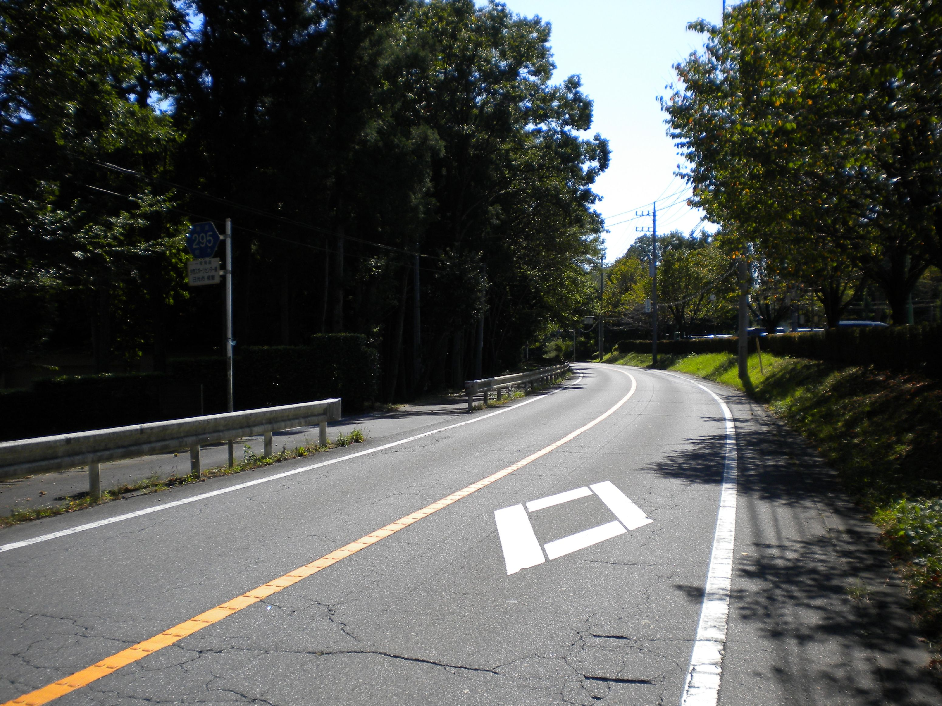 Tochigi prefectural road No.295 on Nikko city